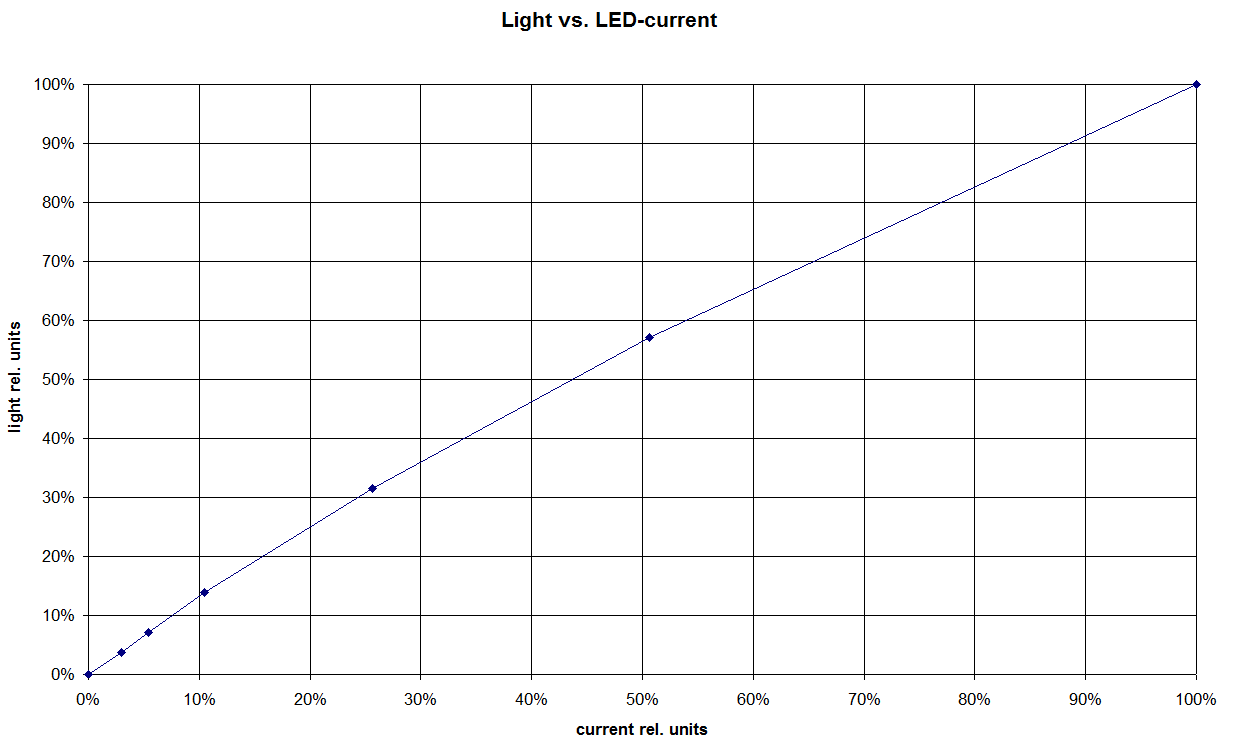 typical current vs. light graph of a 5mm LED HLMP-CE11-X1000 cyan